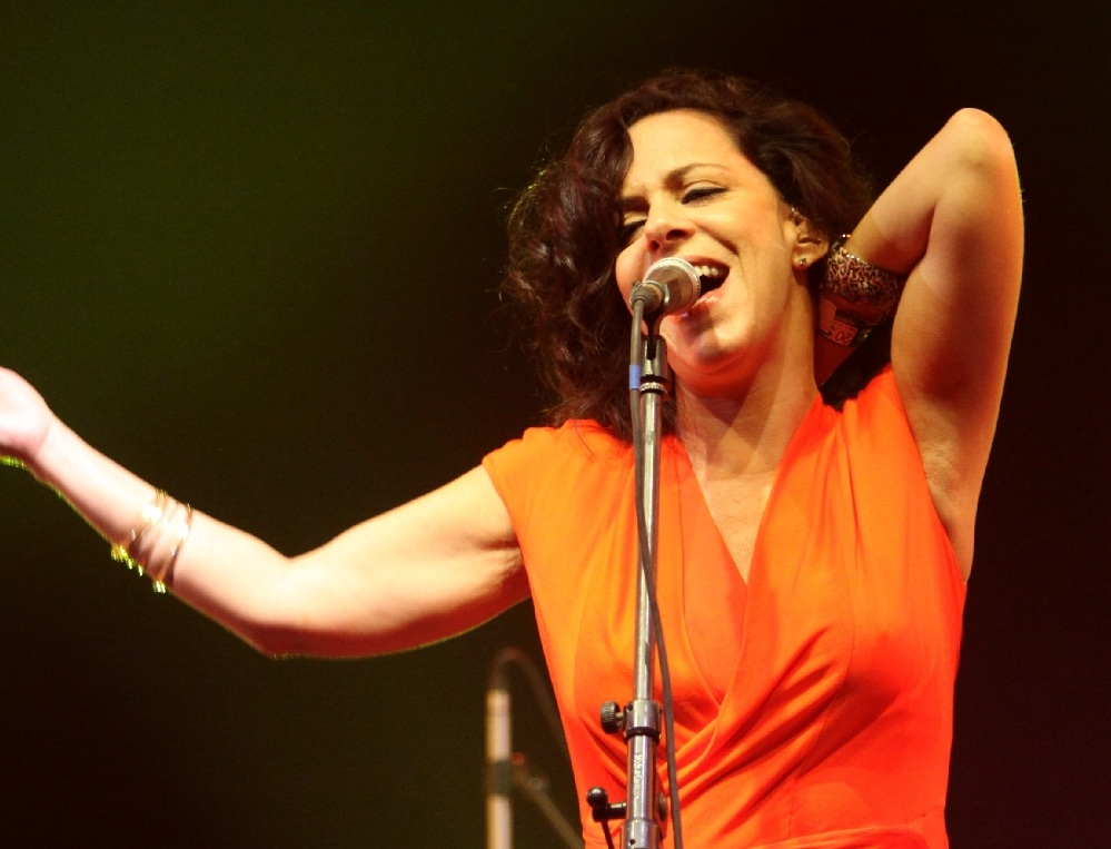 Bebel Gilberto performing in Budapest, Hungary, on August 10, 2012.